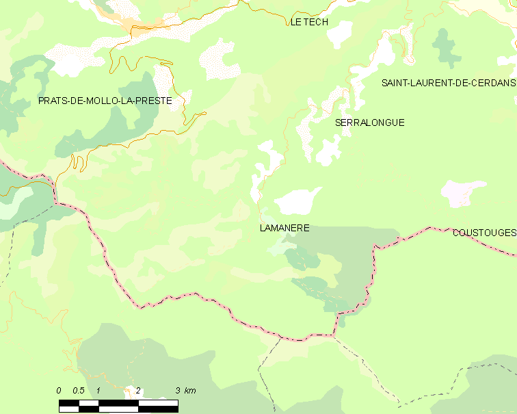 Map of French municipality